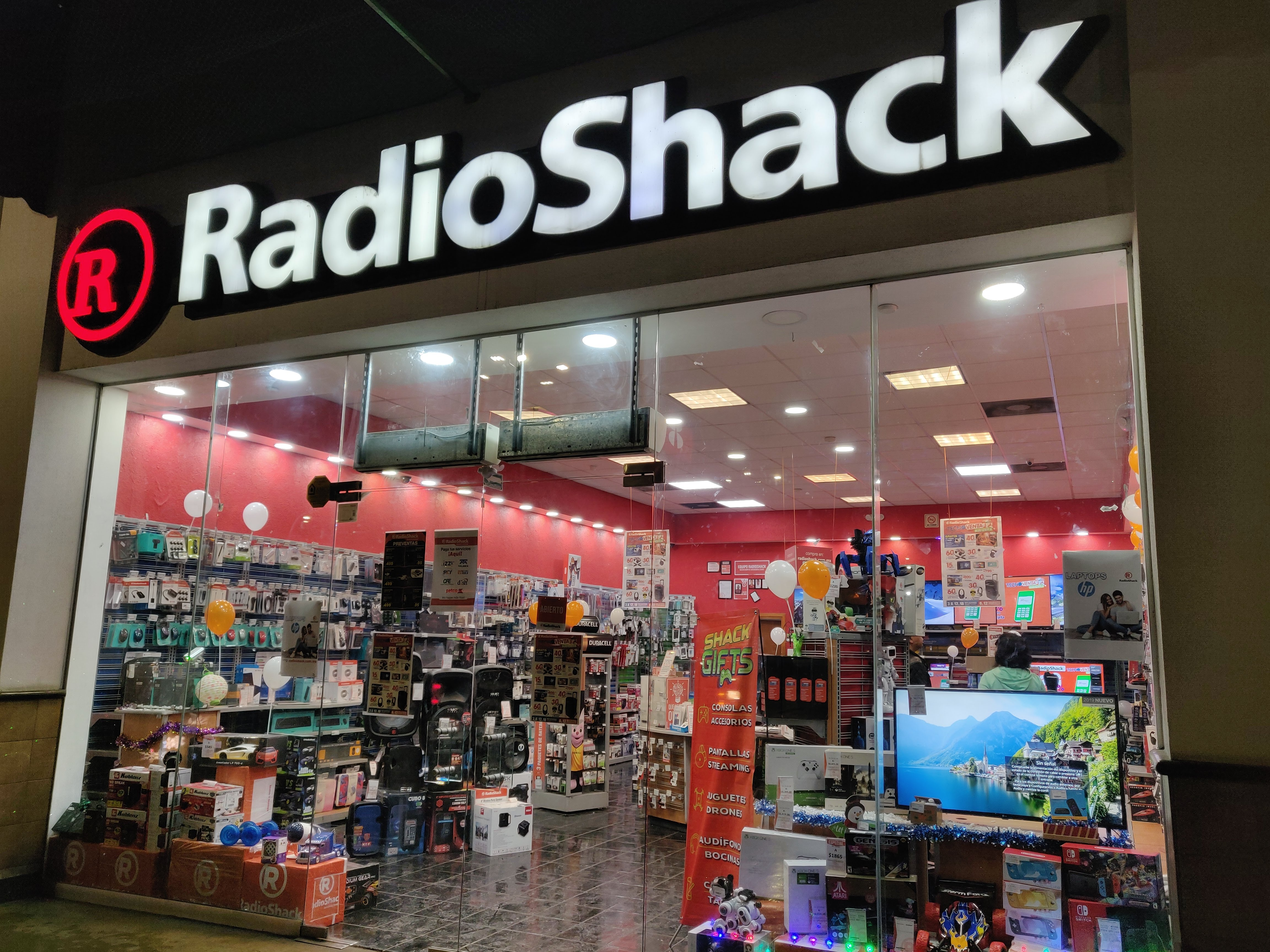 A RadioShack storefront located at Macroplaza shopping mall in Tijuana, Baja California, Mexico.